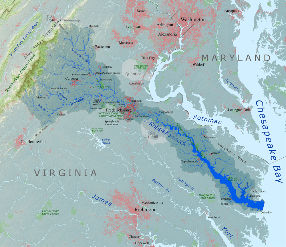 Map of the Rappahannock River drainage basin made using data from the National Map.